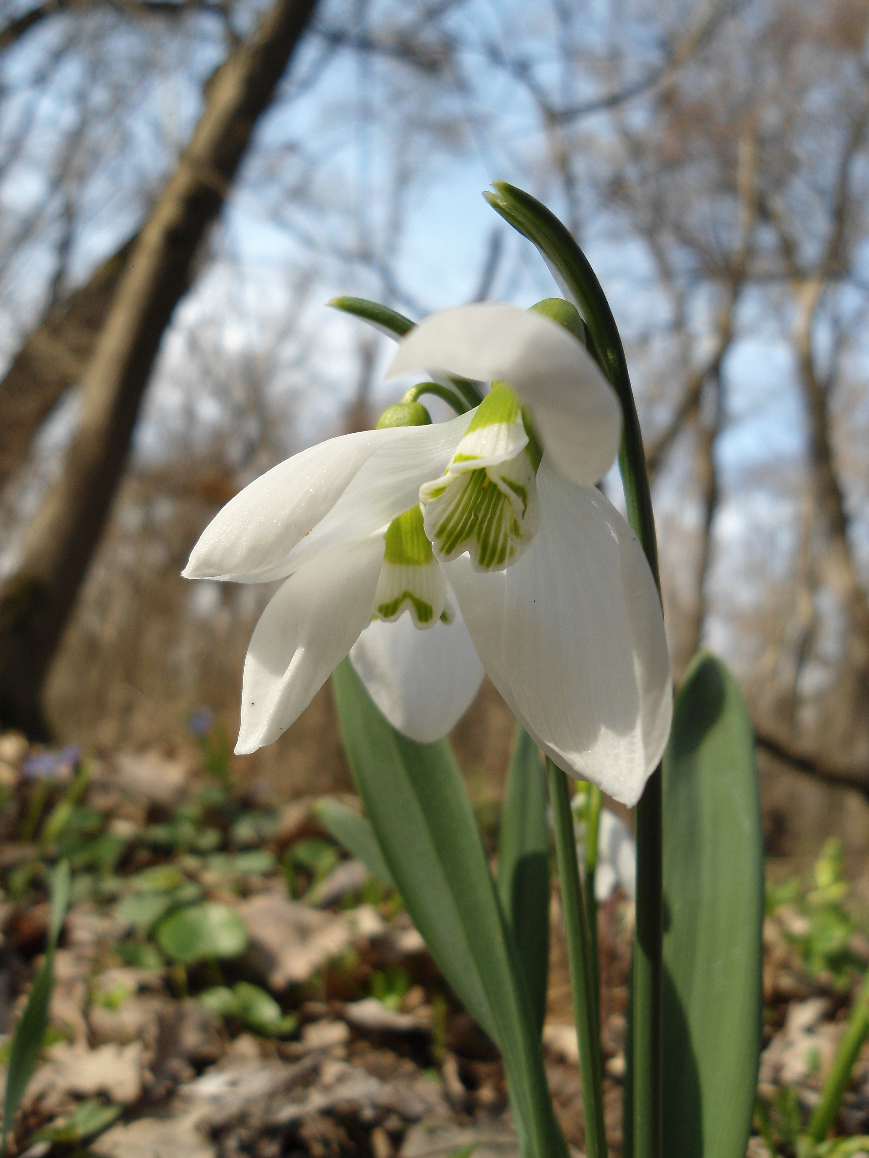 Snowdrops Galanthus elwesii, growing in protected riparian forest near Elhovo, Bulgaria. The species is listed as Endangered in Red Data Book of the Republic of Bulgaria.